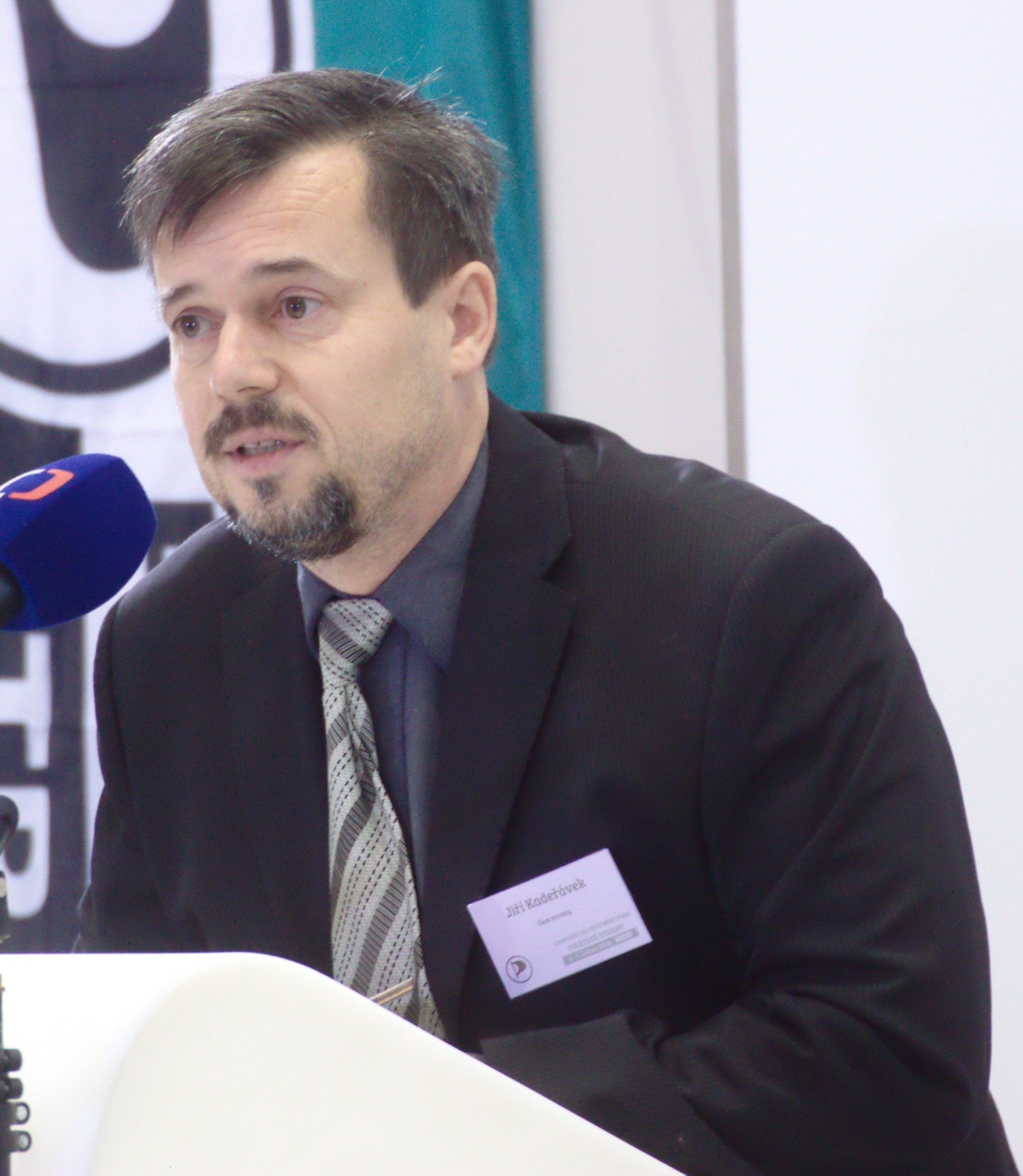 Founder of Czech Pirate Party Jiří Kadeřávek